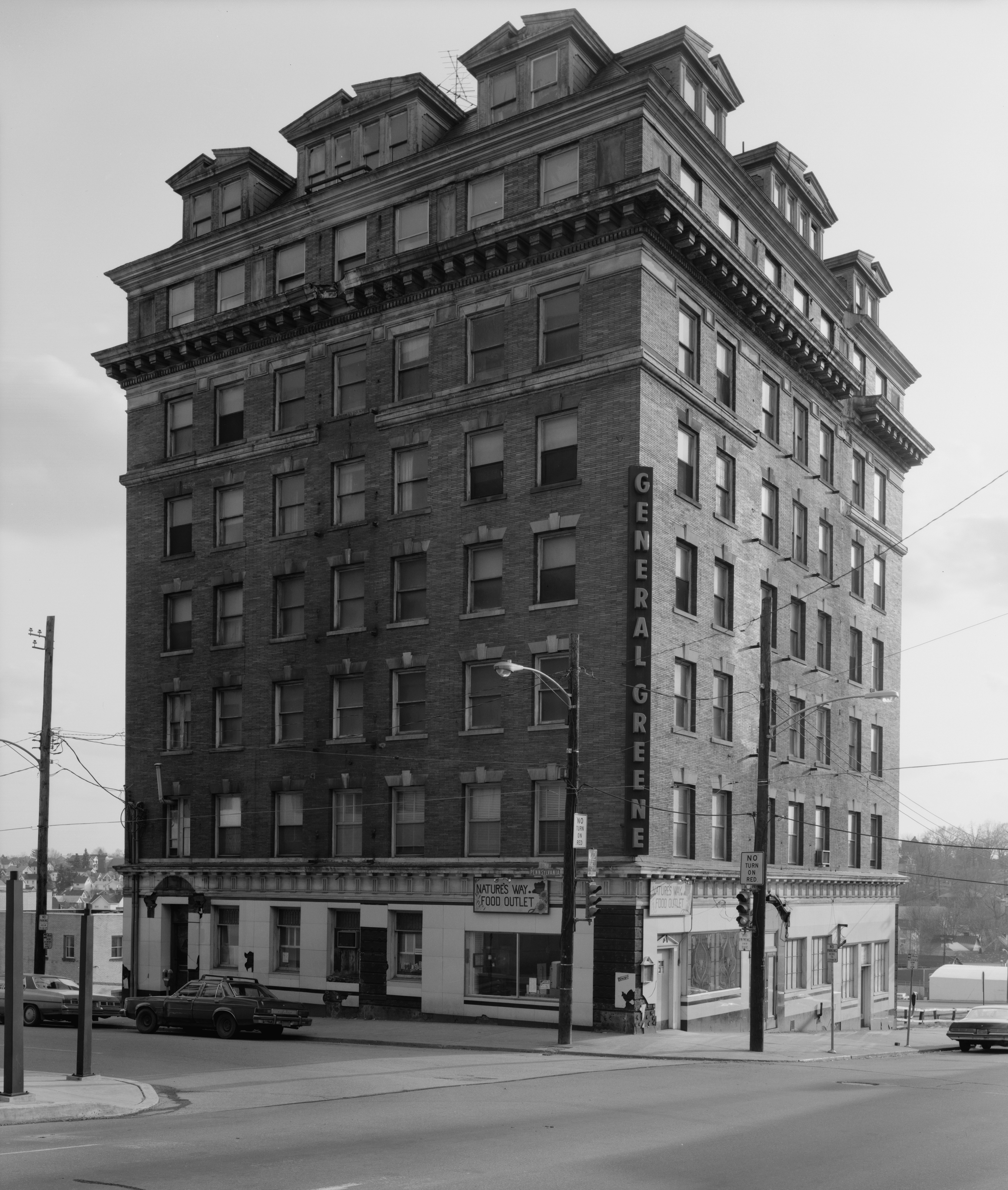 Facade facing southwest of the Hotel Rappe, later Greensburger Hotel, later General Greene Hotel, 24 West Otterman Street (address also given as 40 North Pennsylvania Avenue), Greensburg, Pennsylvania. Architect: John Sakal. Built in 1903 and since demolished.